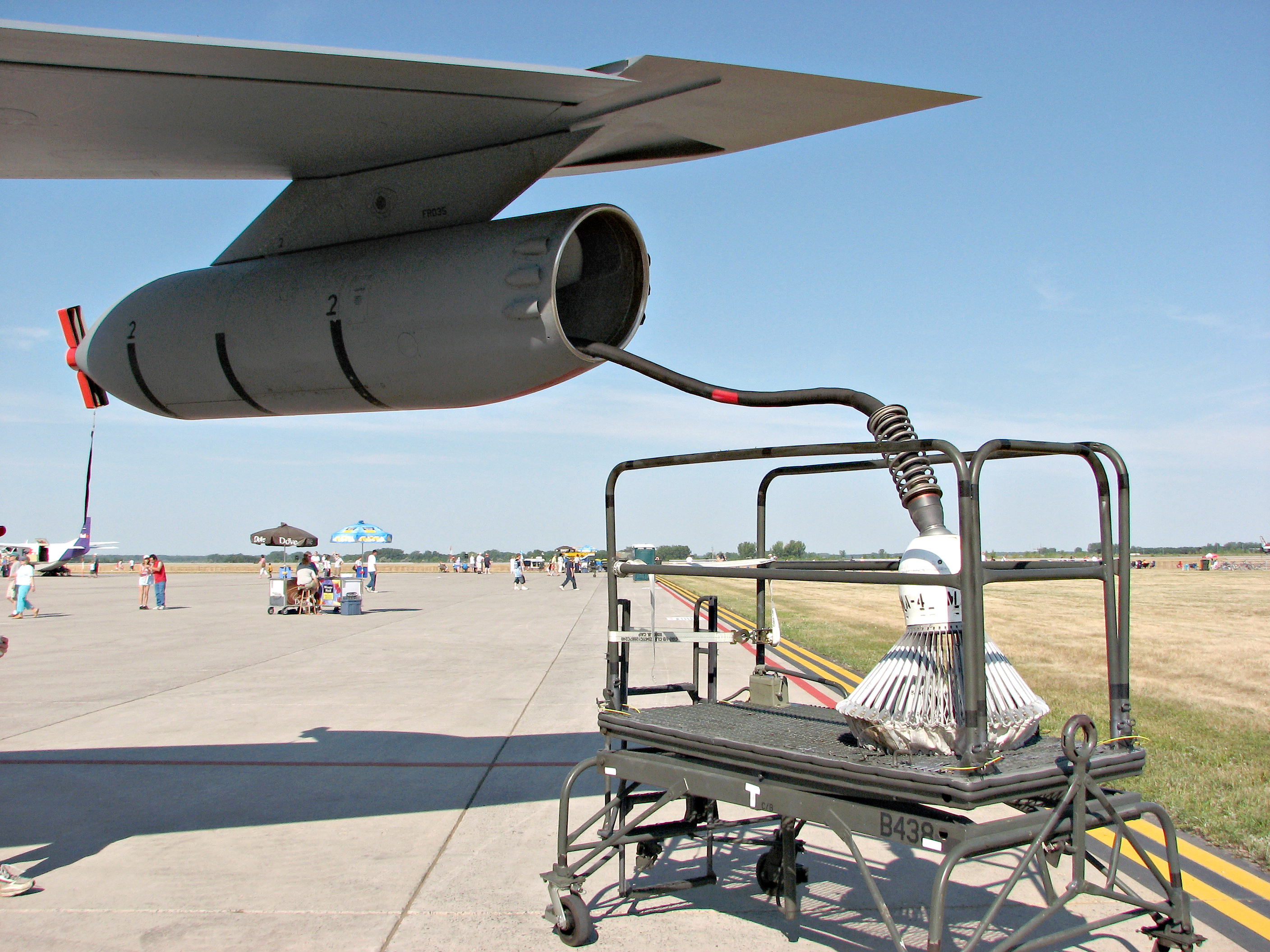 Multipoint Refueling System (MPRS) for USAF KC-135 Stratotanker. Refueling pod with hose and drogue.